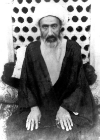 Grand Ayatollah Mirza Hussain Naini